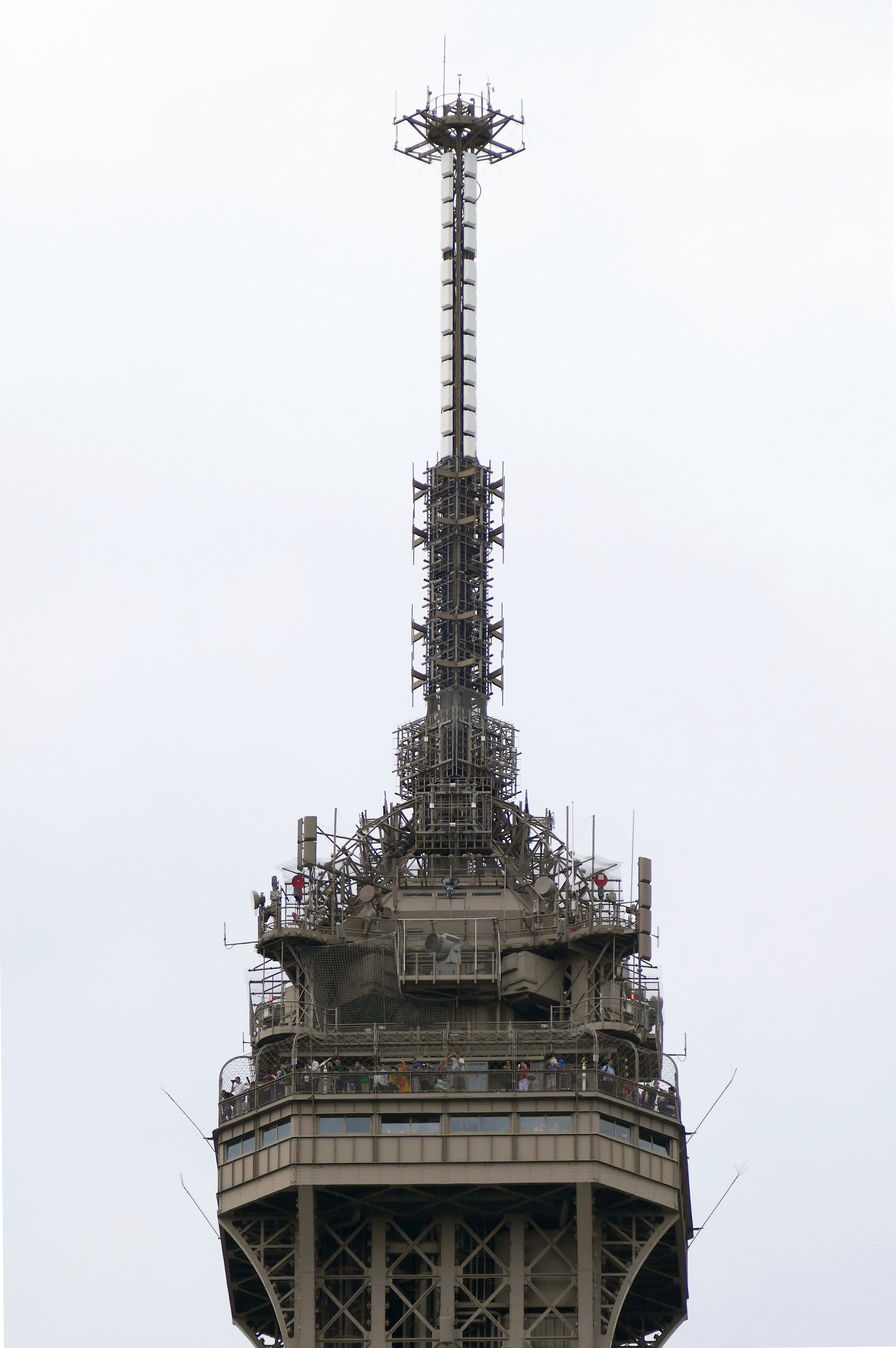 The top of the Eiffel Tower, the repeaters, as of August 2015, east side.